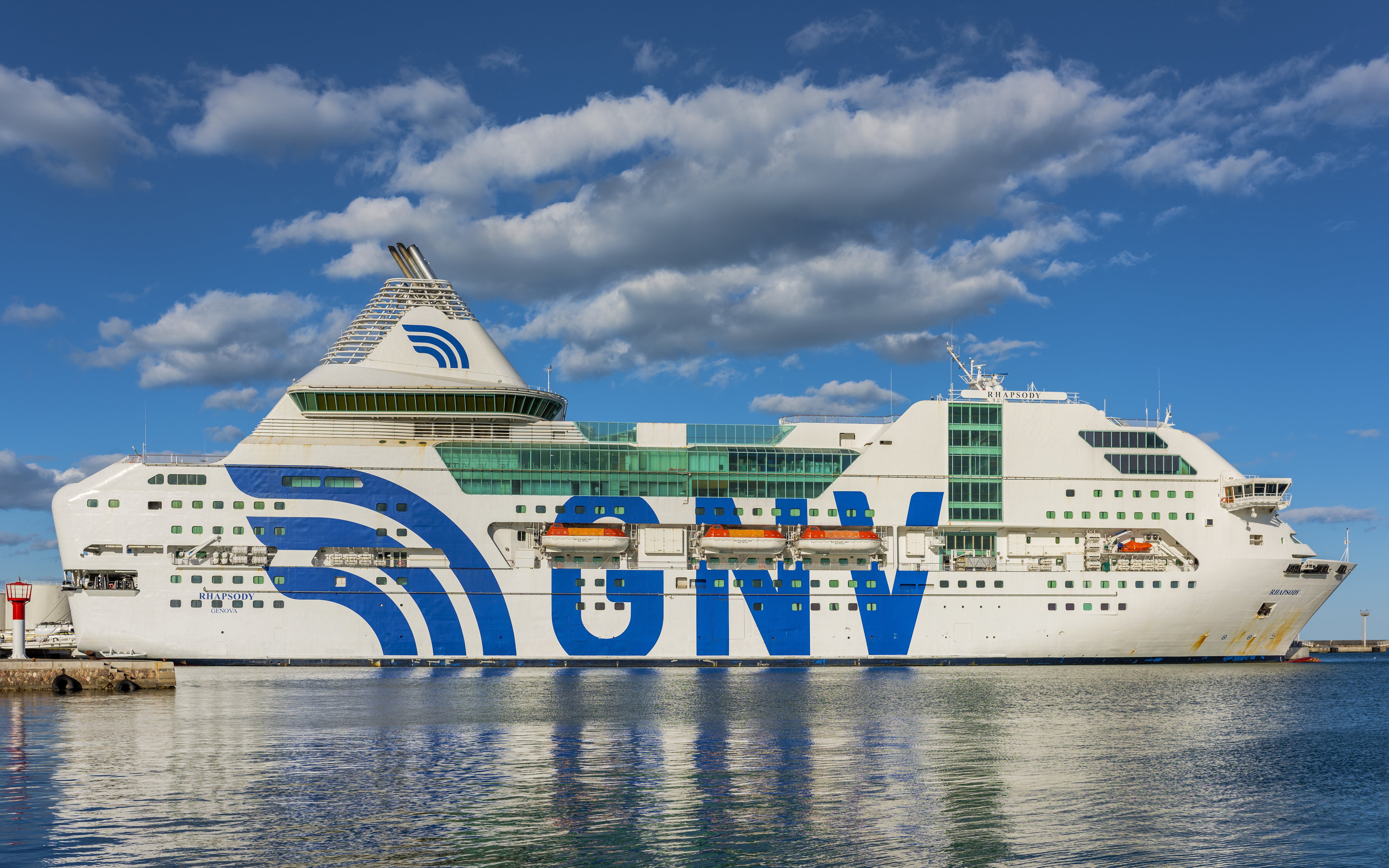 Rhapsody (ship, 1996), former name "Napoléon Bonaparte", moored in the harbor of Sète, Hérault, France